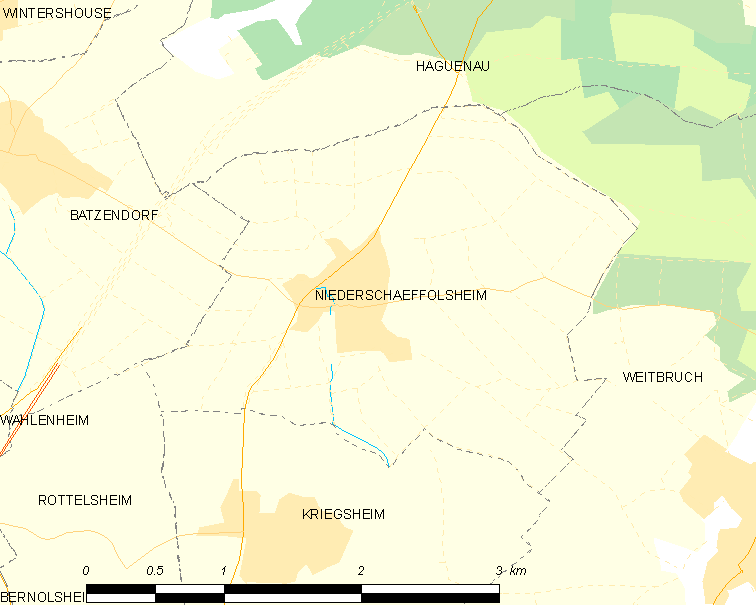 Map of French municipality